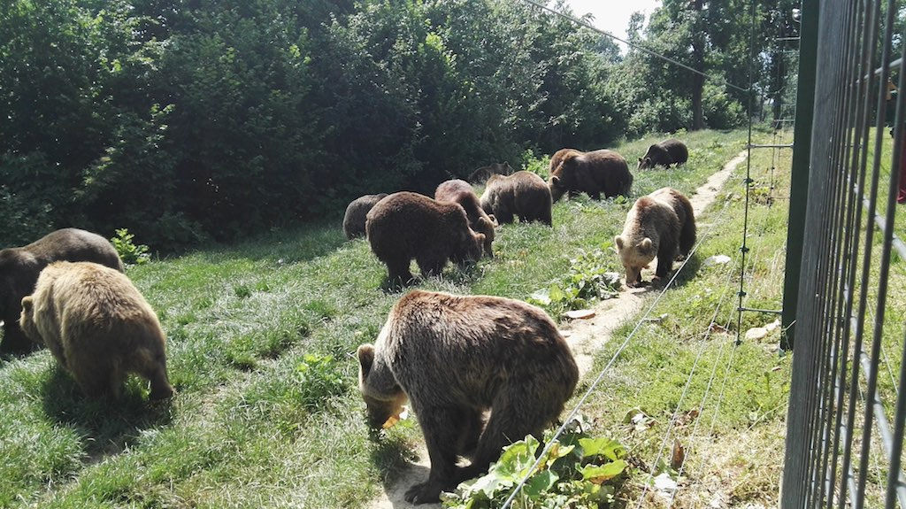 Libearty_Center-16